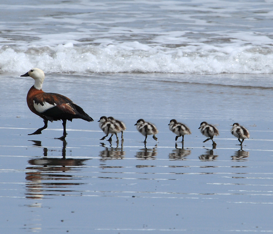 A mother Paradise Shelduck (the Māori name is Pūtangitangi), took her six small ducklings out into the shallows of Opunake Beach, New Zealand today. They caught tiny little waves and surfed back to the shore.